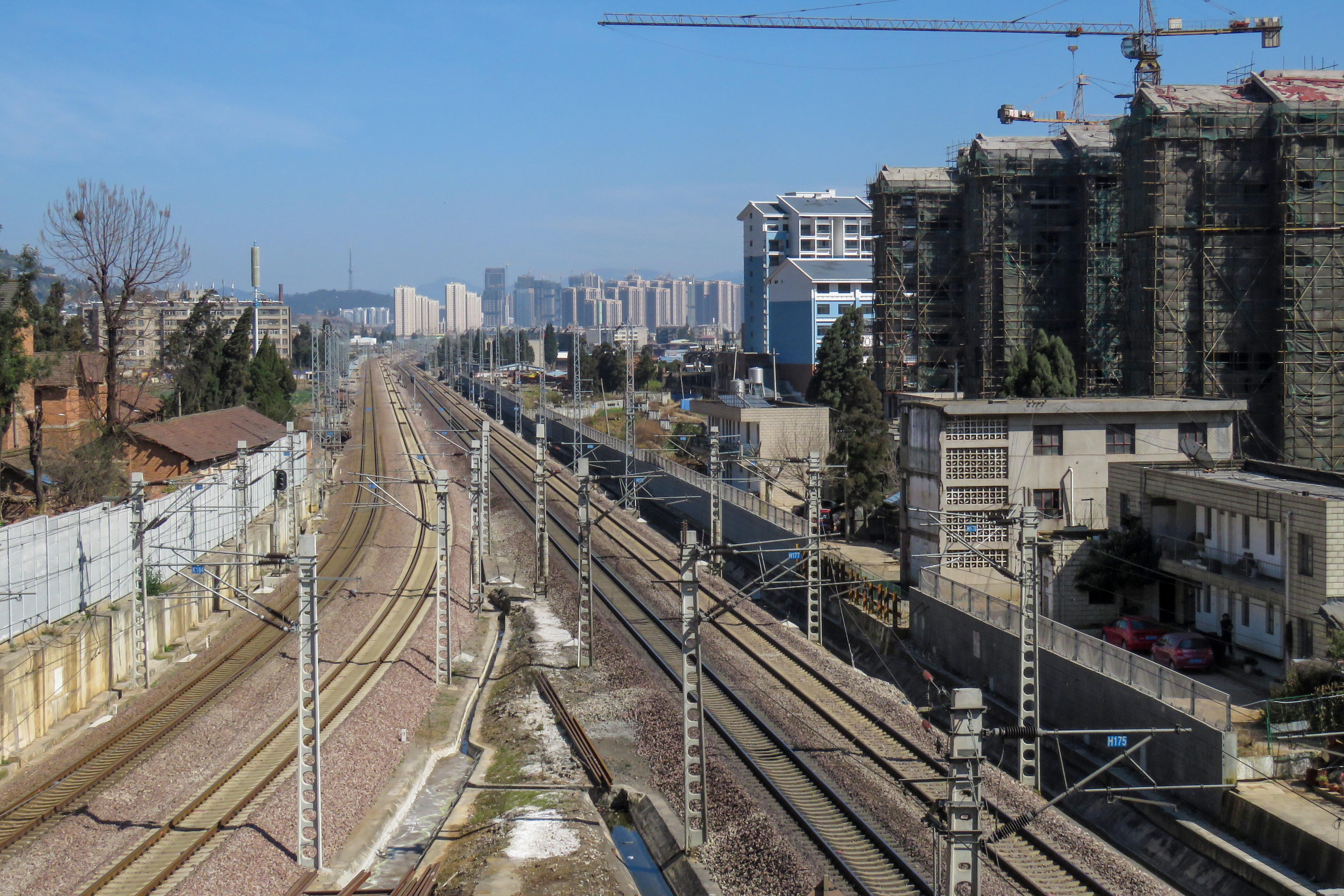 Taken from somewhere near Xishan. Maybe it's only a signal base marking the bifurcation of old and new railways.